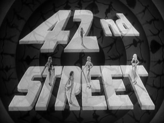 Main title frame from public domain trailer for 1933 Warner Bros. film 42nd Street